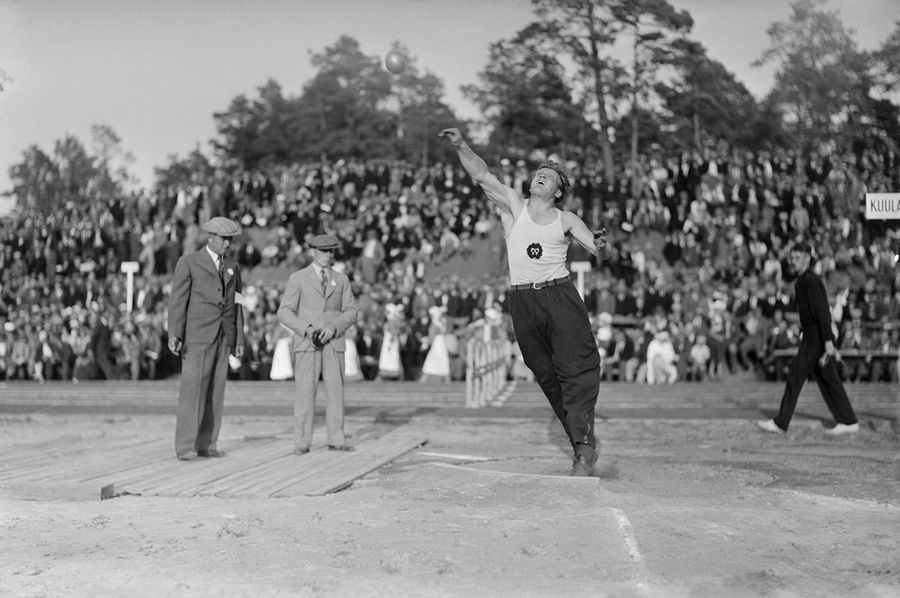 Risto Kuntsi won a silver medal in shot put in the European Athletics Championships in 1934.